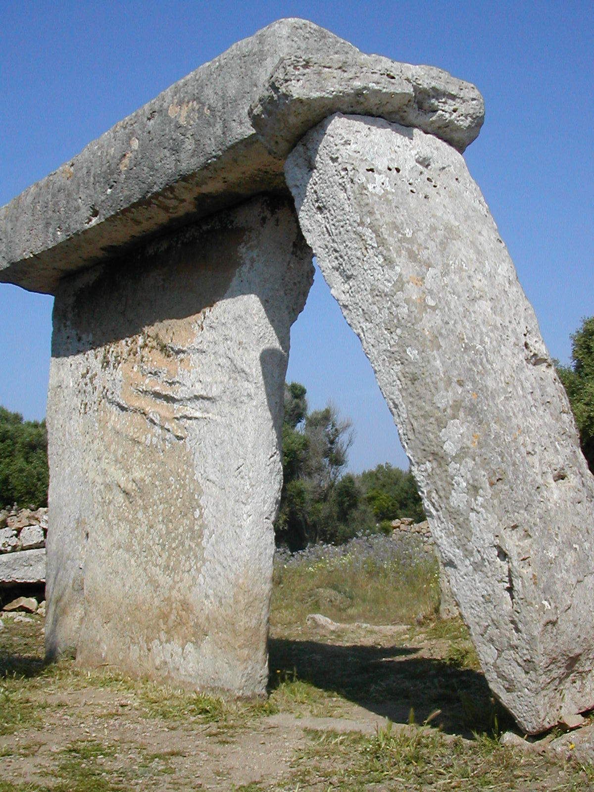 This is a taula from the archaeological site Talatì de Dalt. The site is about 4km west of Maó on the island of Menorca.